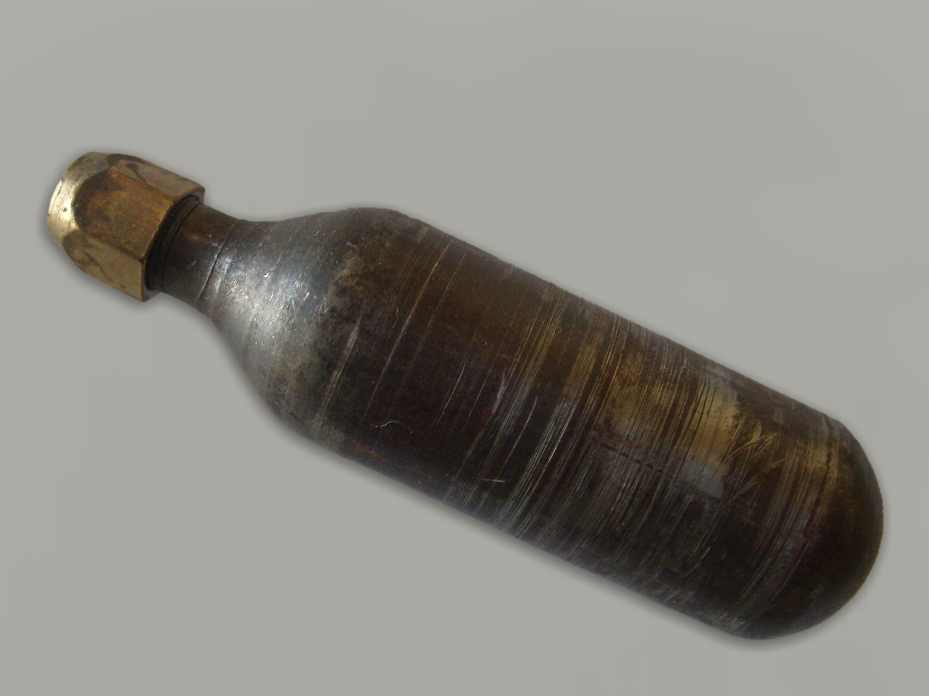 Sparklet